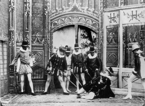 Still image from the 1897 French film The Assassination of the Duke of Guise (fr. L'Assassinat du duc de Guise) by Alexandre Promio (not to be confused with The Assassination of the Duke of Guise from 1908).